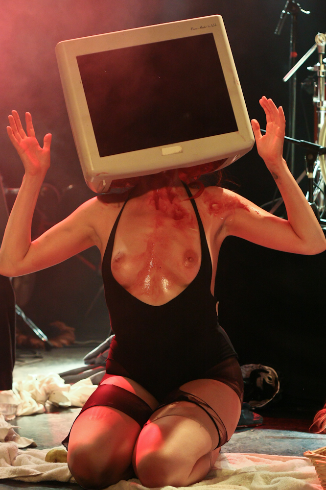 Bonaparte (band)